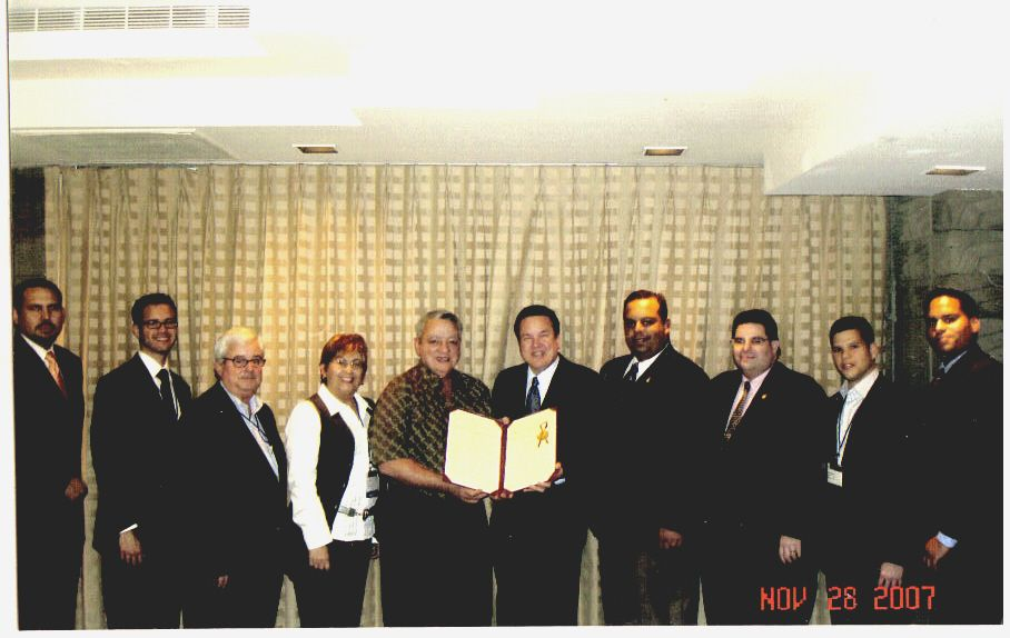 members of the Puerto Rican Senate pay tribute to Tony (The Marine) Santiago for his work in Wikipedia. This picture was takenby my wife with "my" camara. Permission sent to "OTRS"